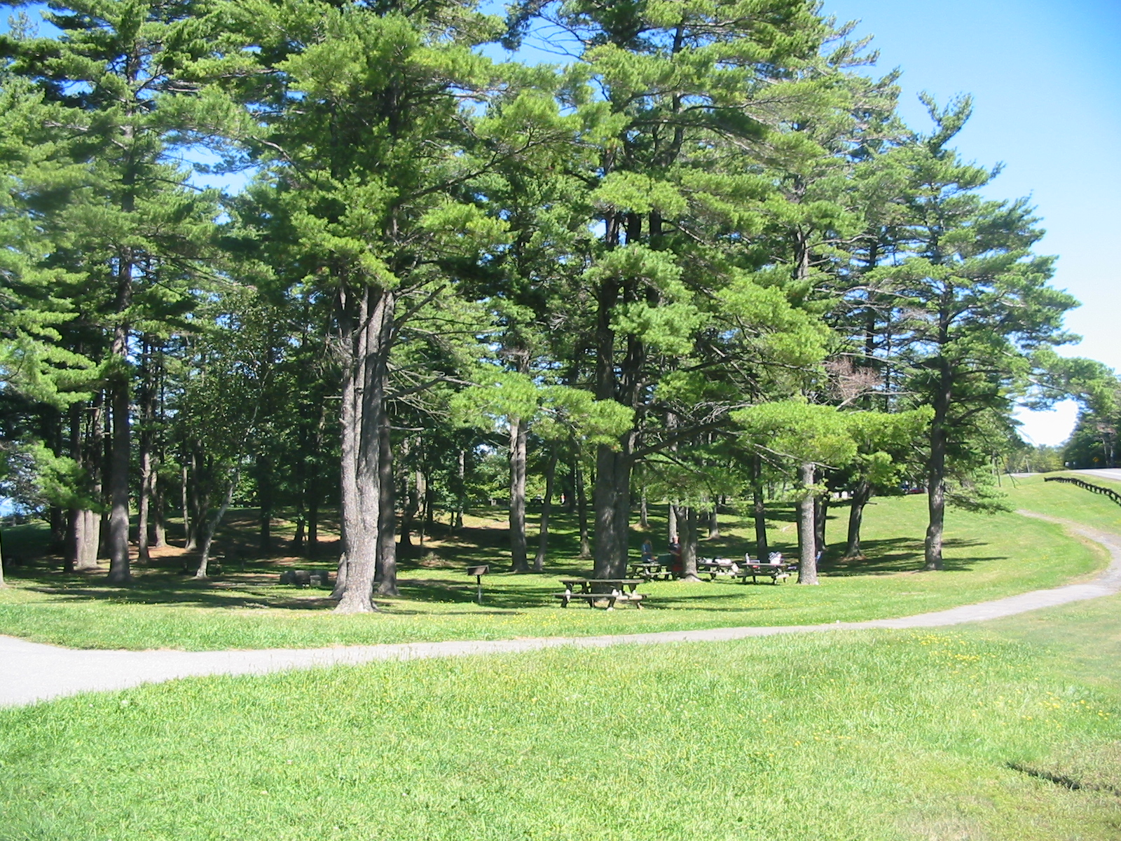 Picnic area in Thacher Park in New Scotland, New York, United States